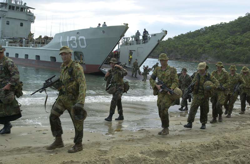 HMAS Wewak (L 130) Details: SHOALWATER BAY TRAINING AREA, Australia, May 18, 2001 -- Australian soldiers and U.S. Marines hit Freshwater Beach after disembarking from an Australian Navy Landing Craft Heavy during an amphibious landing. Australian Army photographer Sgt. Bob O'Donahoo.